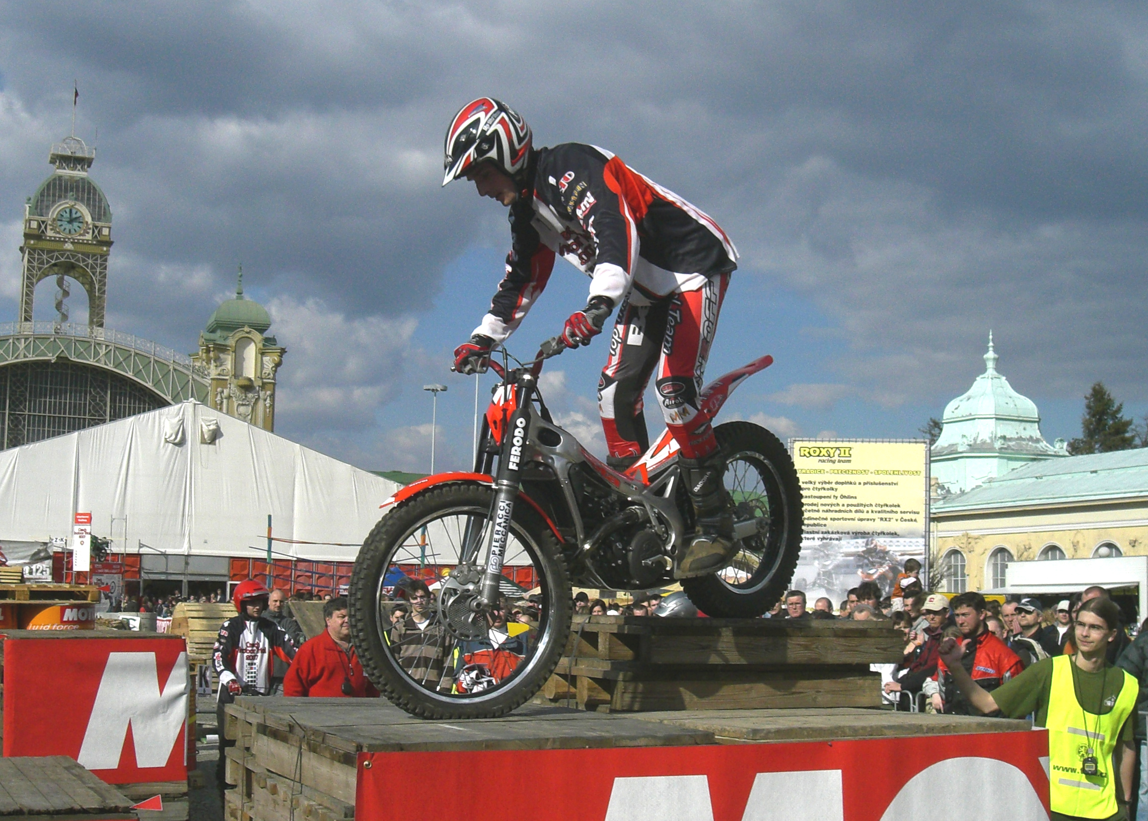 Motorcycle Trial rider during qualification on Pražské výstaviště in Holešovice. Praha 9. March 2007 By Chmee2